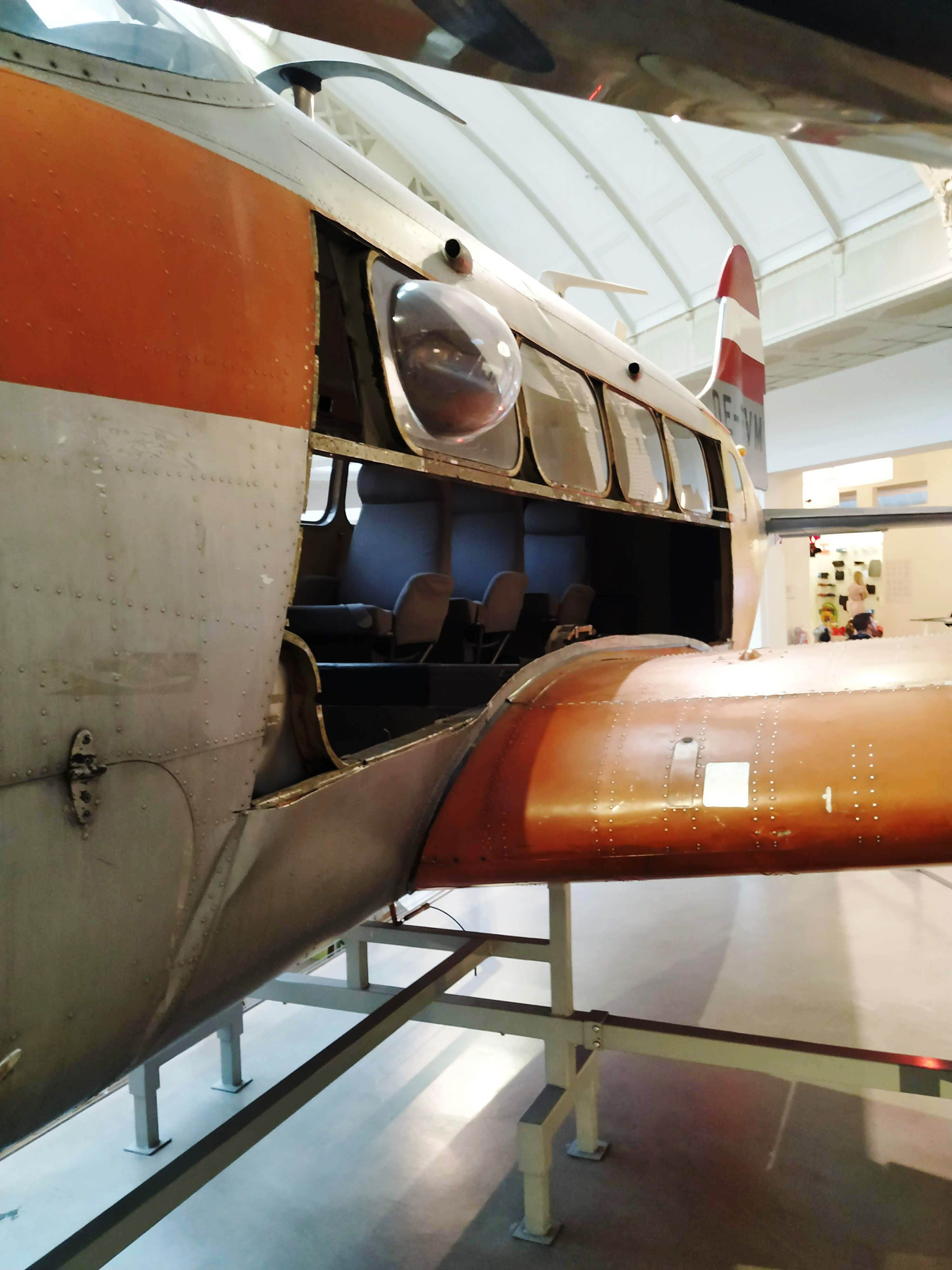 The cabin of the De Havilland DH 104 Dove aircraft at the Vienna Technical Museum